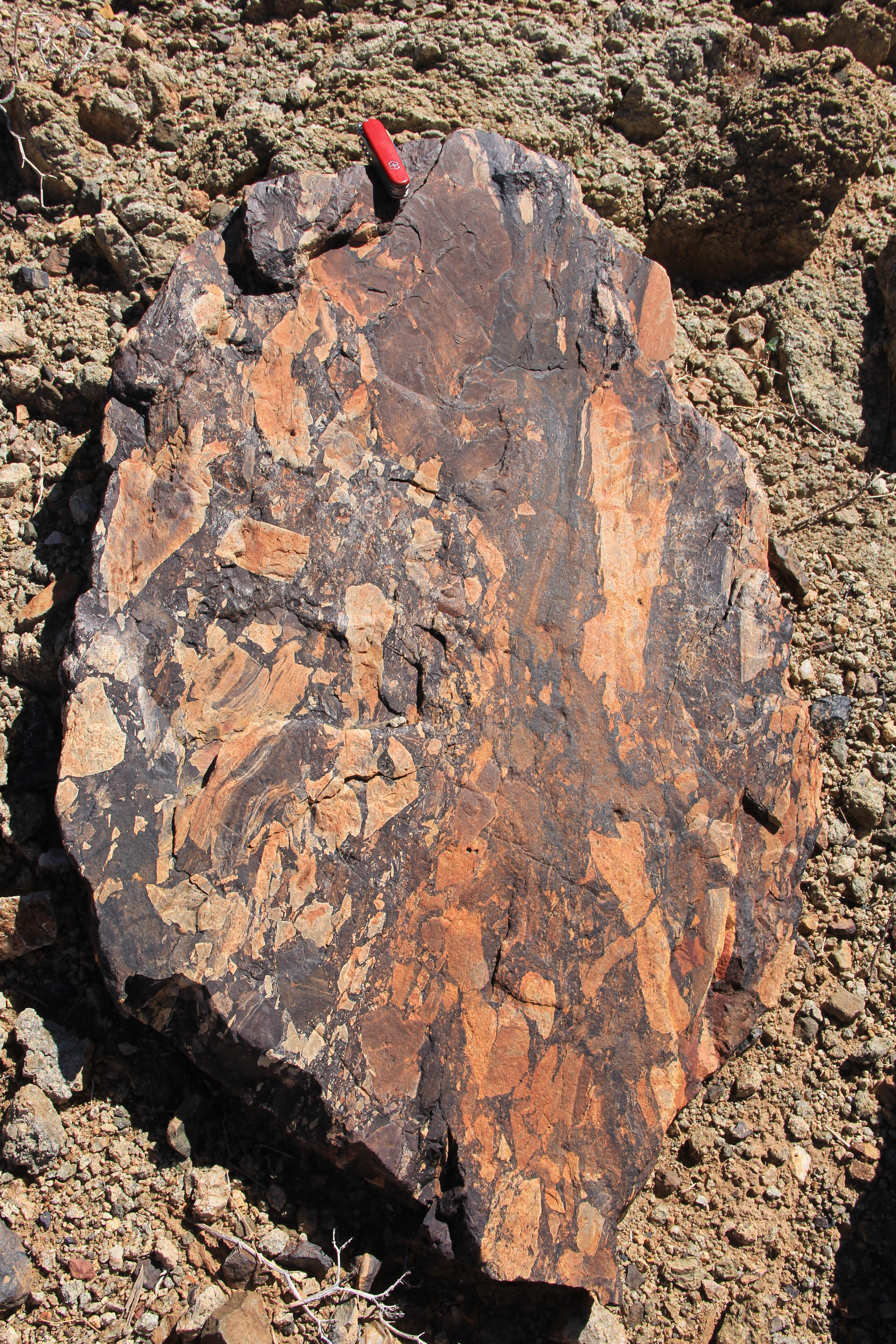 „Brandberg Pyrophyllite“ - breccia with pyrophyllite and pelites of the Karoo sequence. Hungorob gorge, Brandberg, Namibia.